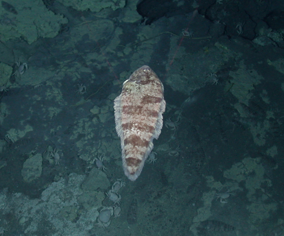 Jason caught this image of a tonguefish swimming in front of the camera (foreground). Notice the other fish scattered on the unsedimented bottom of the fossil sulfur lake.